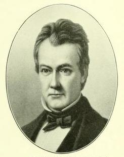 Portrait of US Congressman from New York Hugh White (1798-1870)